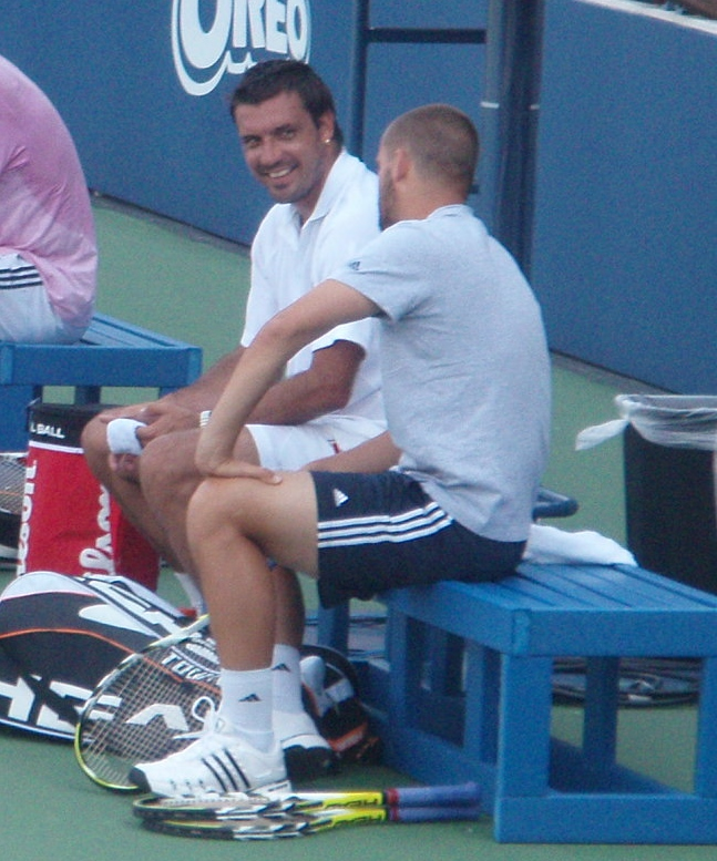 Hernan Gumy as a coach